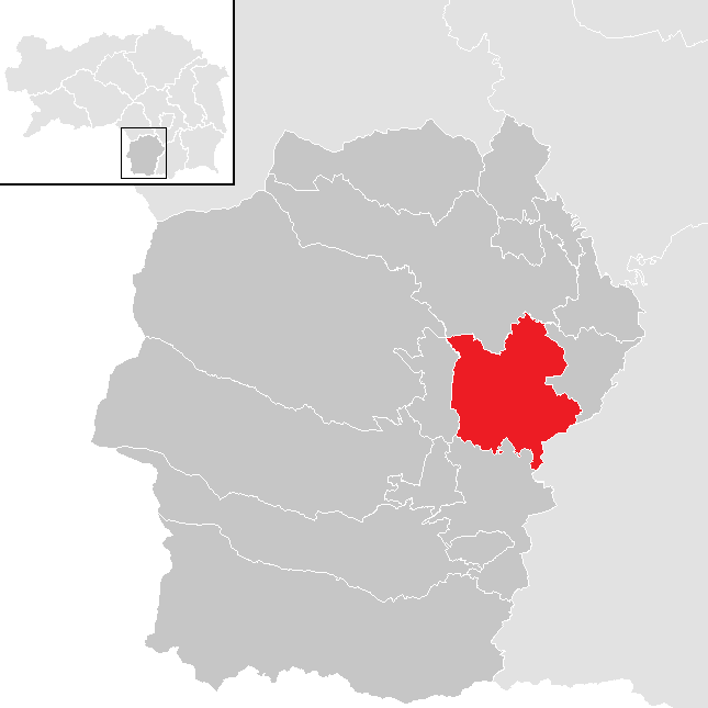 District Deutschlandsberg, Styria, Austria